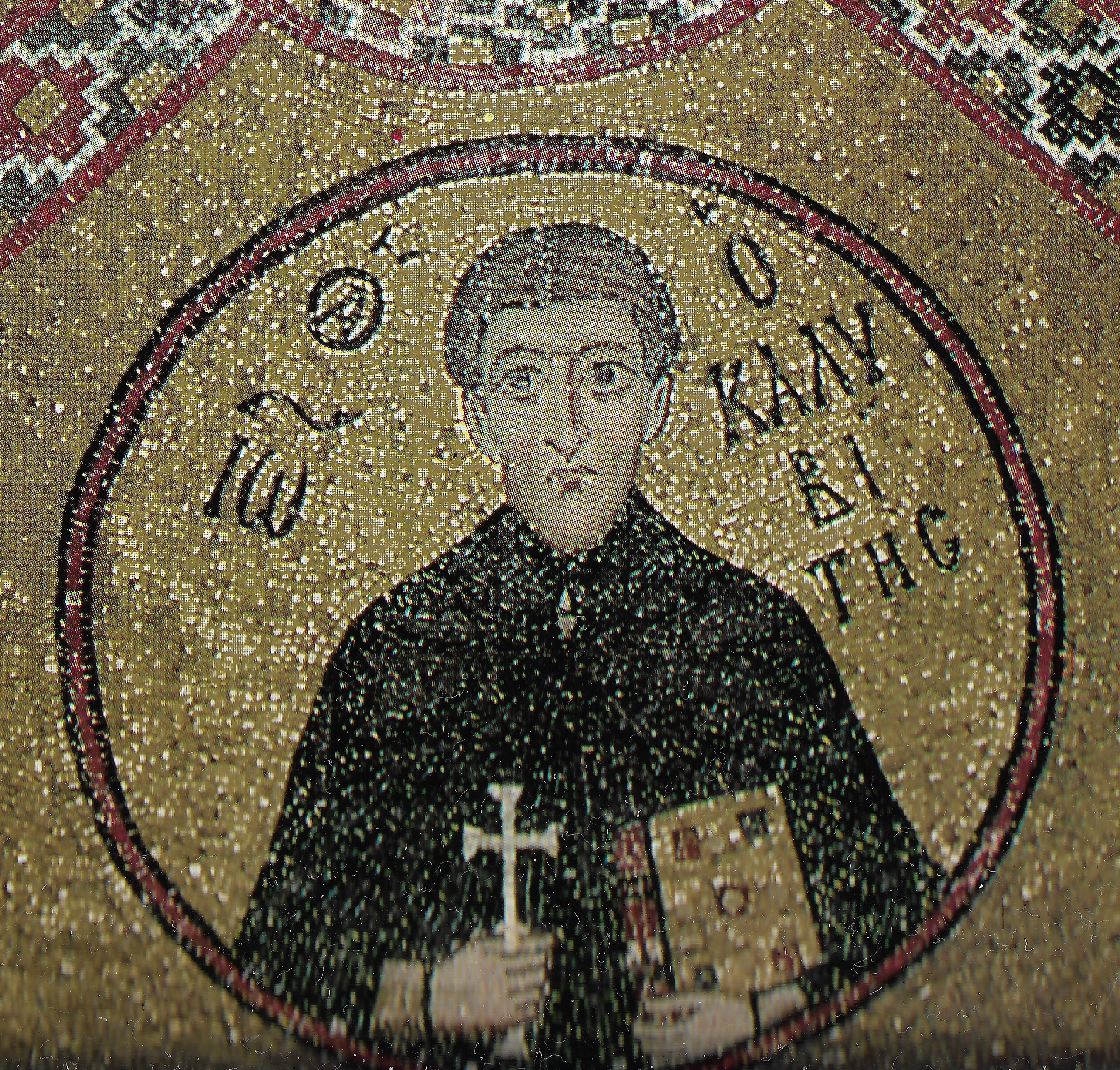 Hosios Loukas Monastery, Boeotia, Greece